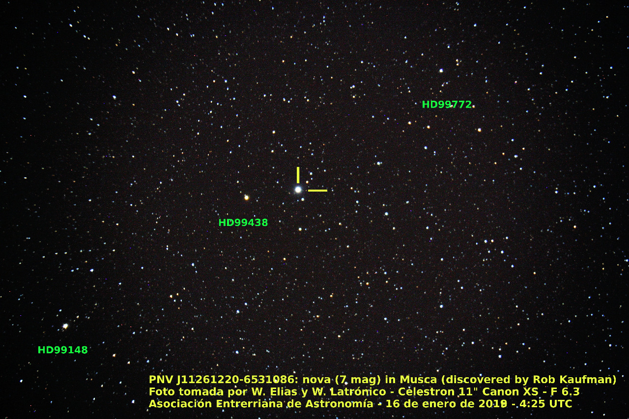 Nova Muscae 16/01/2018 Celestron CPC 1100 F 6.3 - Canon Rebel XS Camera